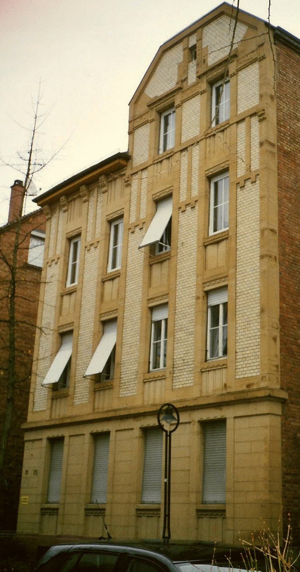 Heilbronn